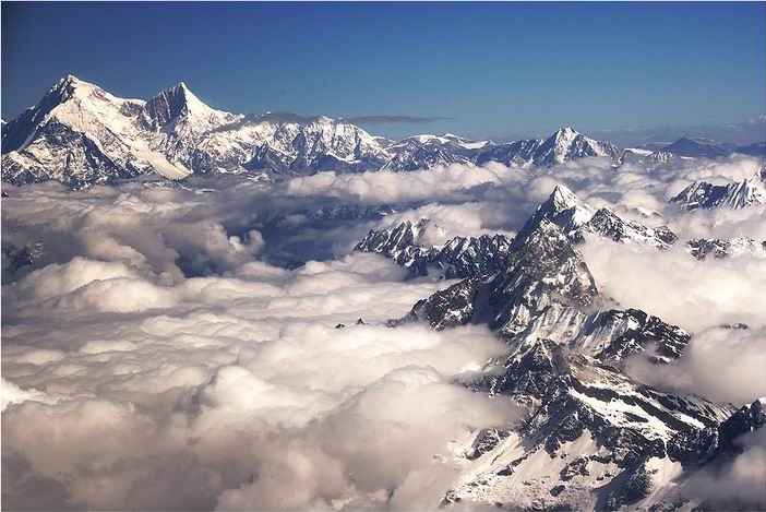 Shishapangma (left) from mountain flight, Nepal